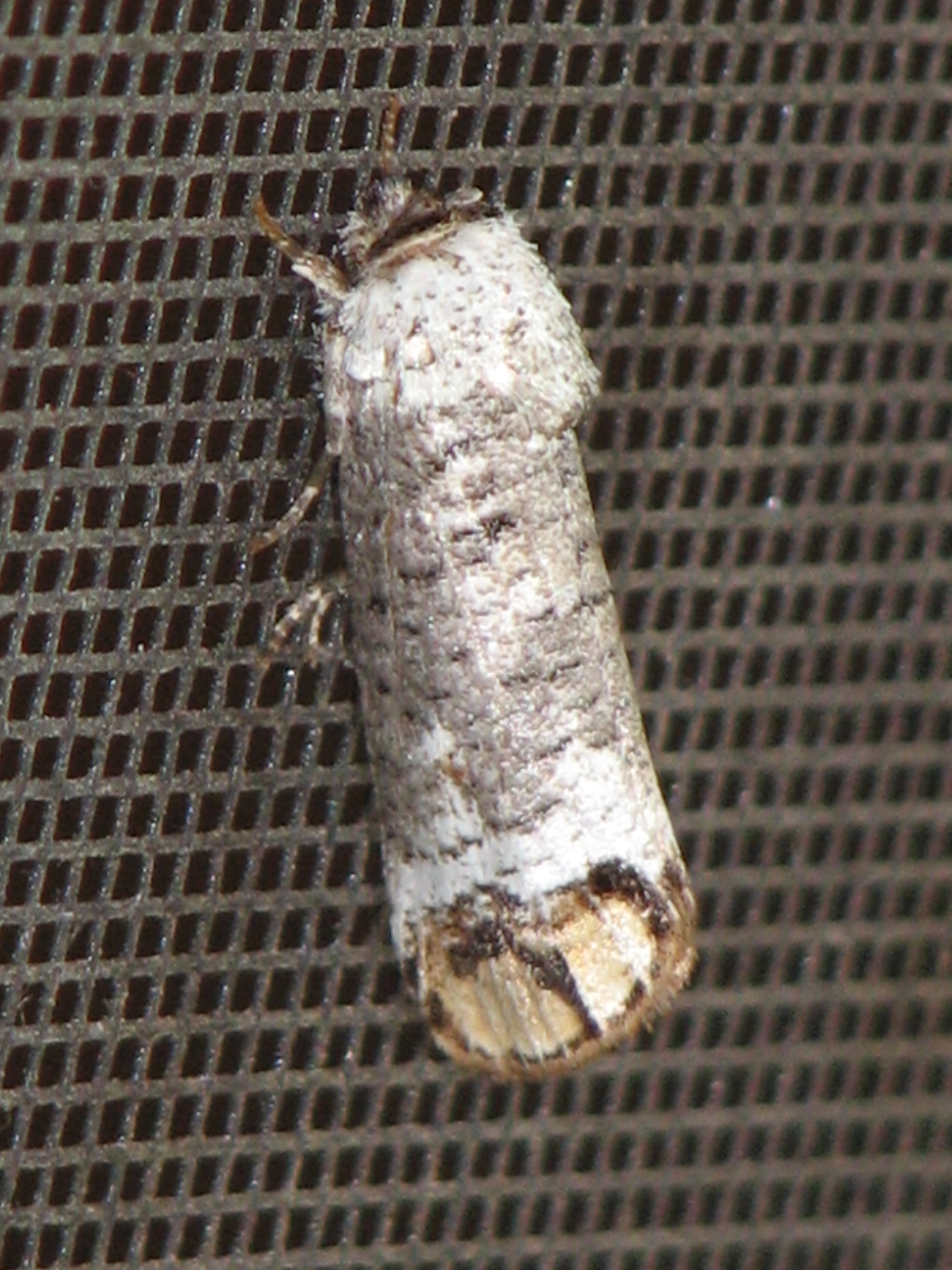 Cossula magnifica at Congaree National Park, South Carolina, USA